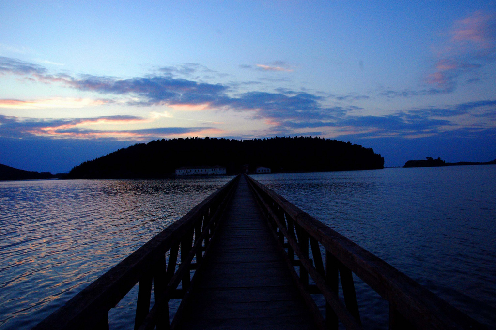 Zvernec island near Vlora, Albania